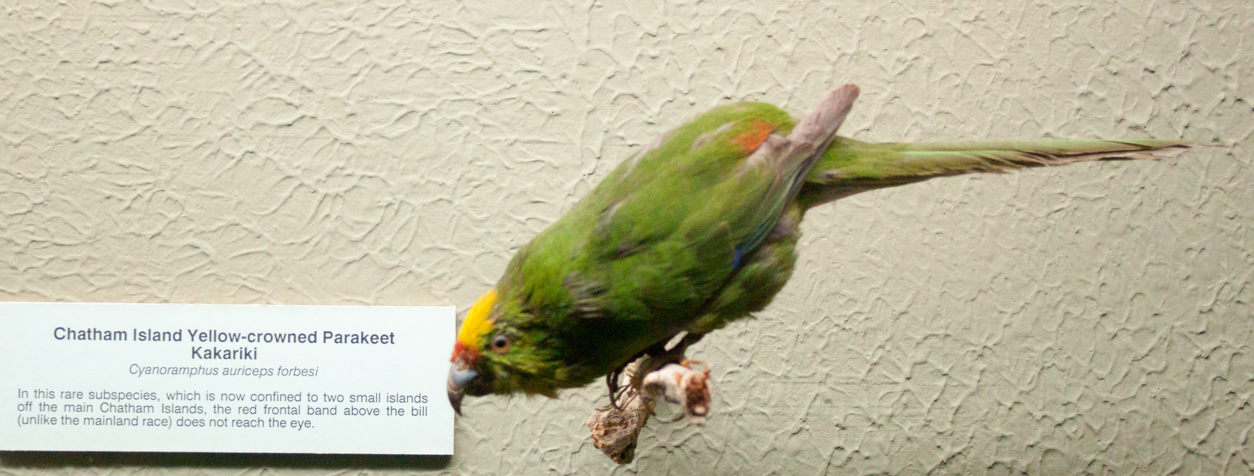 Chatham Island Yellow-crowned Parakeet